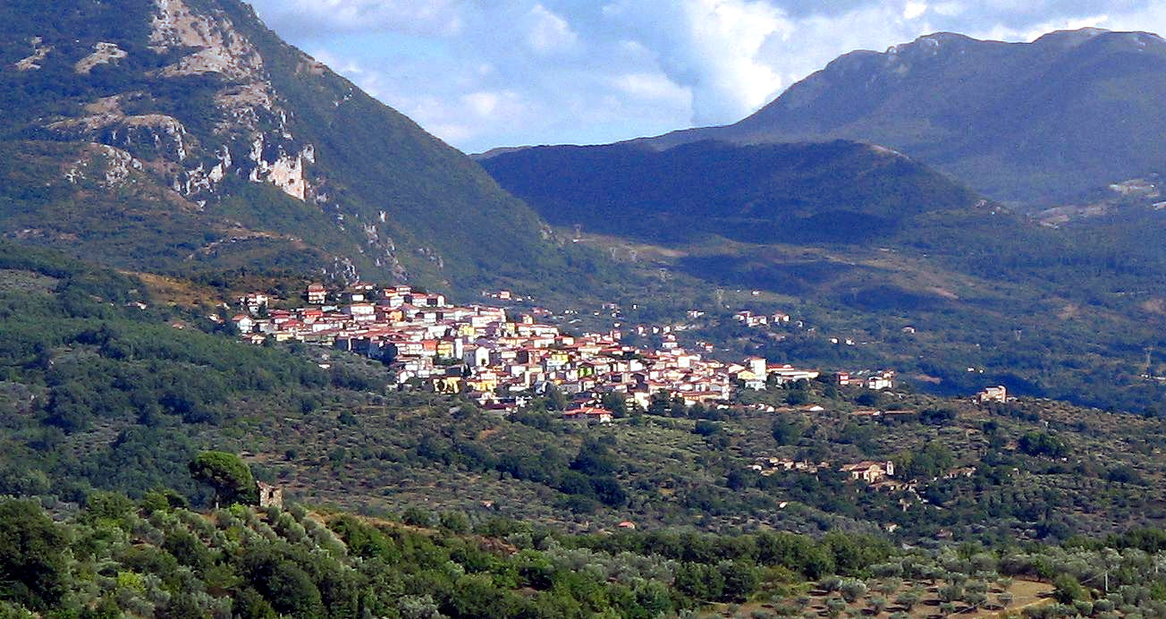 Panoramic view of Roscigno showing the new town (Roscigno Nuova, centralized) and the old ghost town (Roscigno Vecchia, below in the right corner).